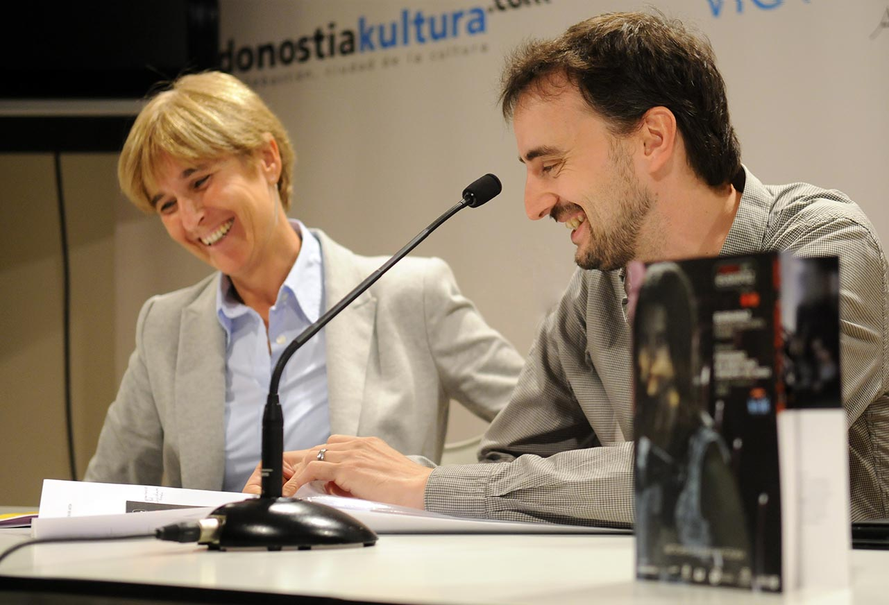 Nerea Txapartegi.